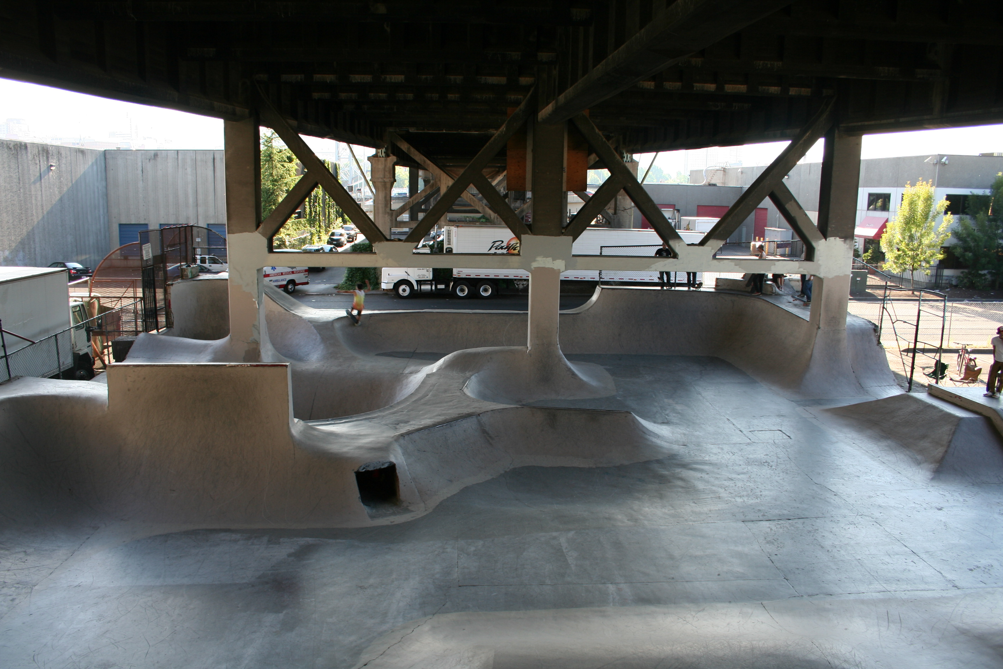 Burnside Skatepark under the Burnside Bridge (Portland, Oregon)